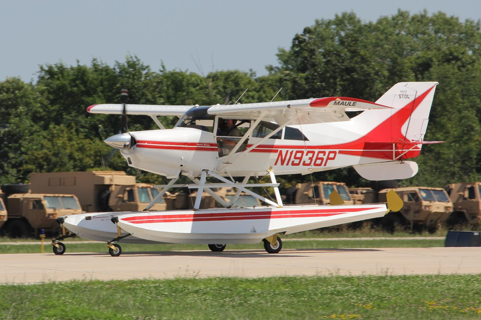 Maule M-7-235C (N1936P)